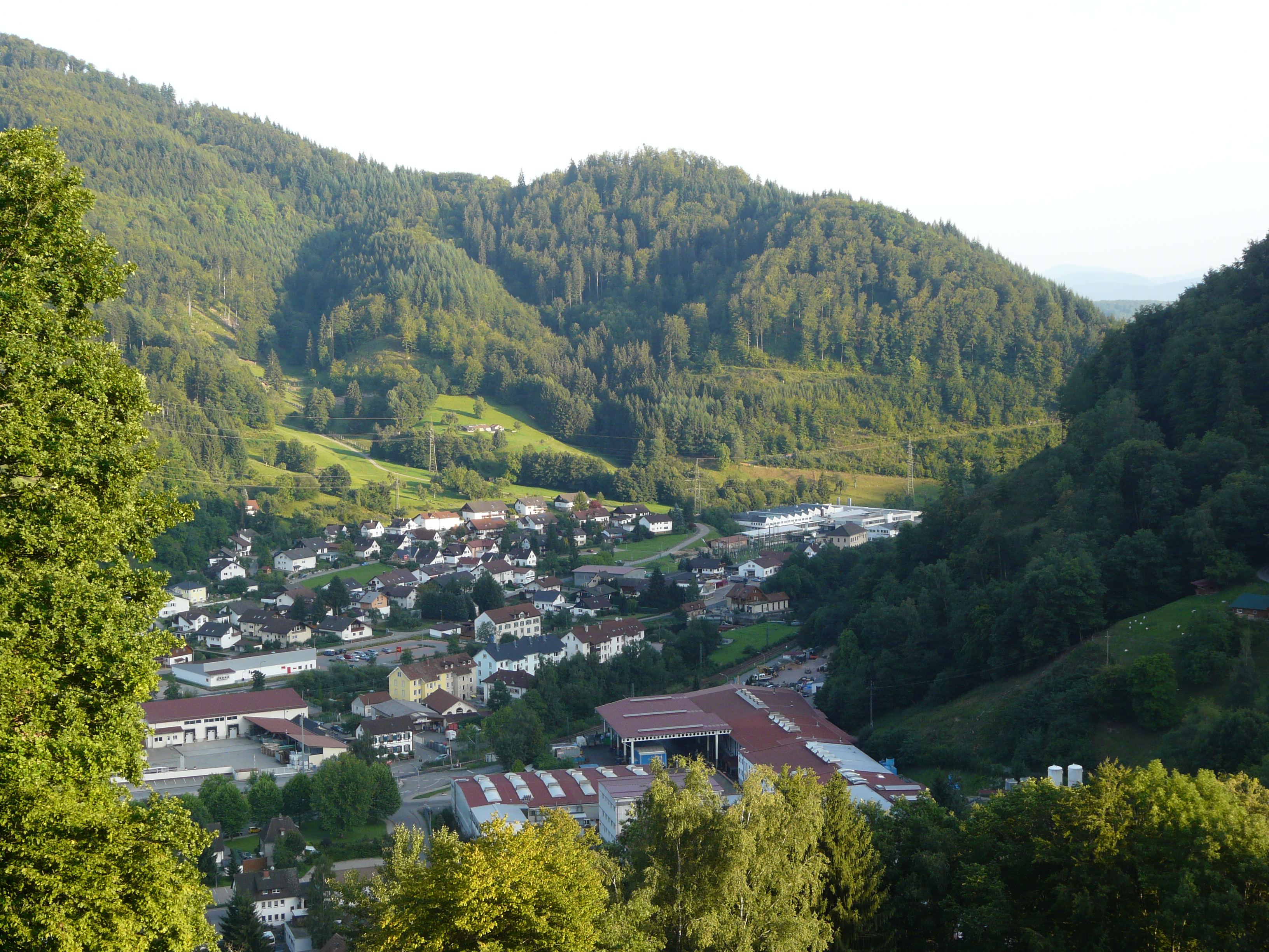 Zell im Wiesental, viewed from below Adelsberg